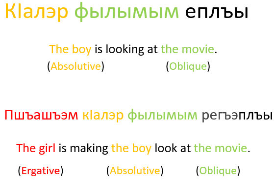 FormingTrivalentVerbsFromIntransitiveVerbs